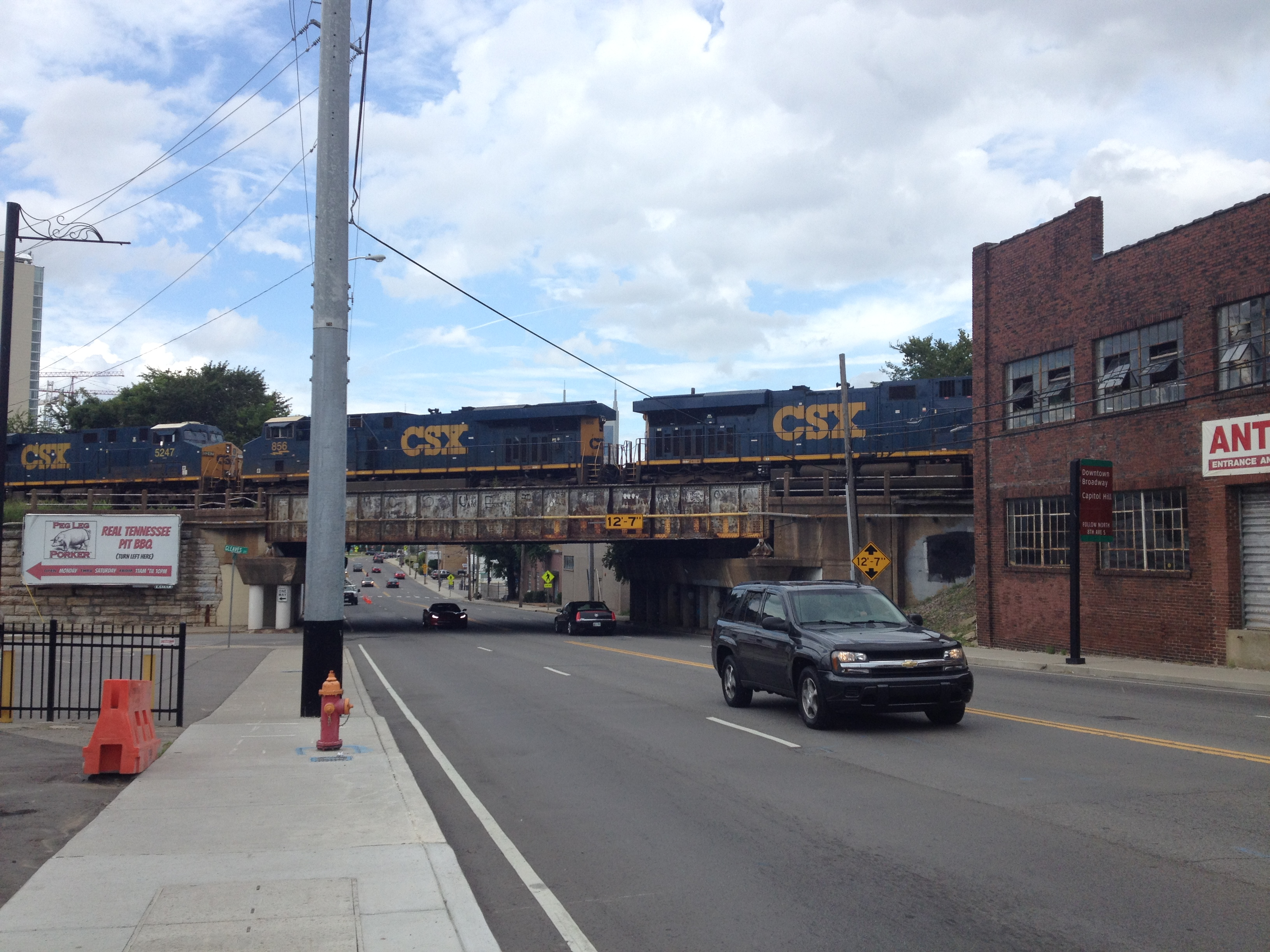 Northbound U.S. Route 31 (8th Avenue) approaching the intersection with Gleaves Street and a bridge under a CSX railroad line in Nashville, Tennessee